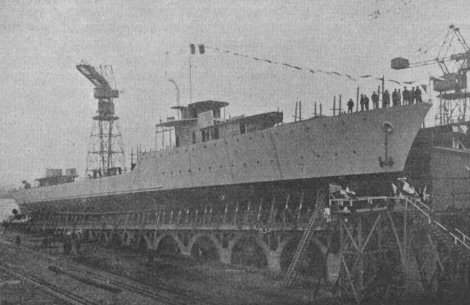 Polish destroyer ORP Burza before launch, 16 April 1929